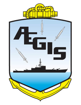 Official AEGIS Combat System logo